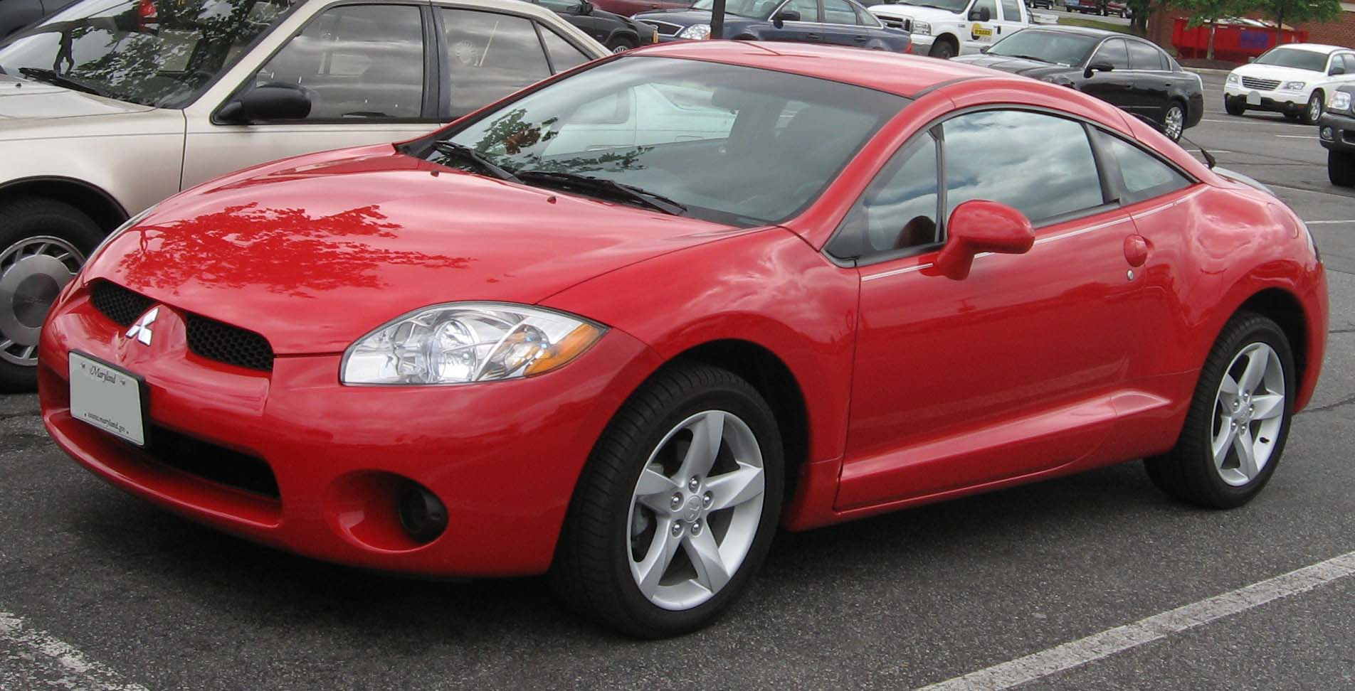 2006-2007 Mitsubishi Eclipse photographed in USA.